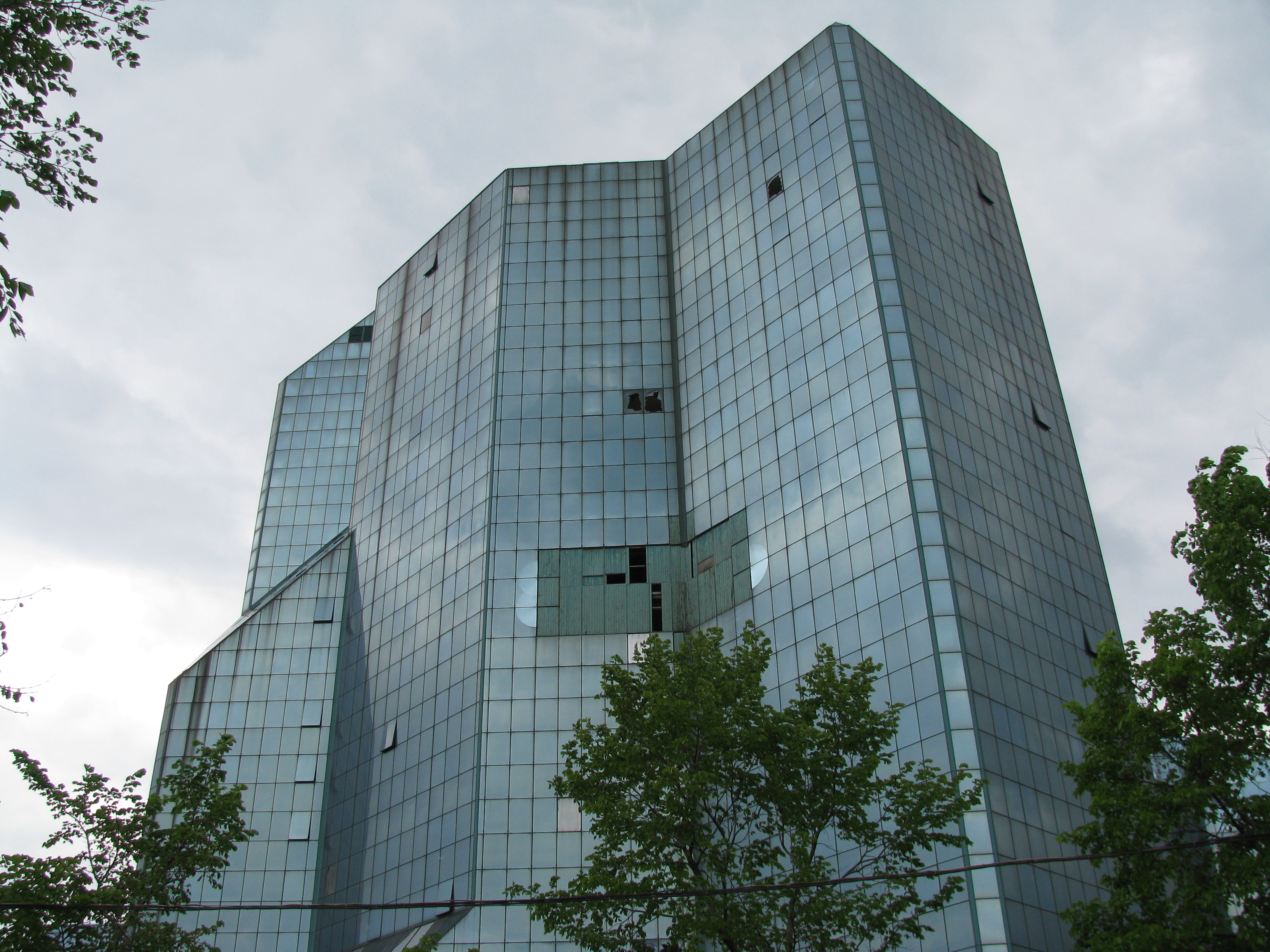 Zenith International Business Center in Moscow